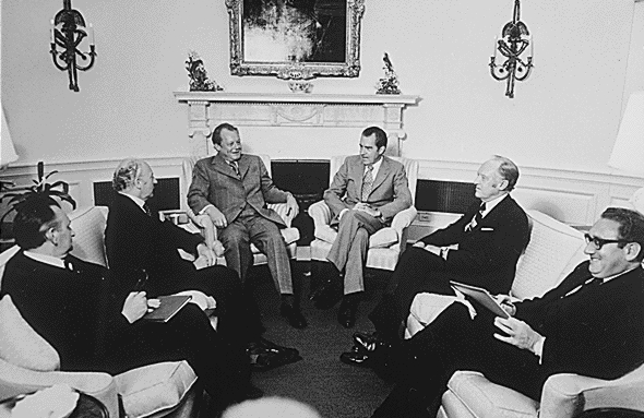 A meeting in the White House to discuss US-West German relations (l-r): advisor Egon Bahr, Foreign Minister Walter Scheel, Chancellor Willy Brandt, President Richard Nixon, Secretary of State William Rogers, advisor Henry Kissinger.